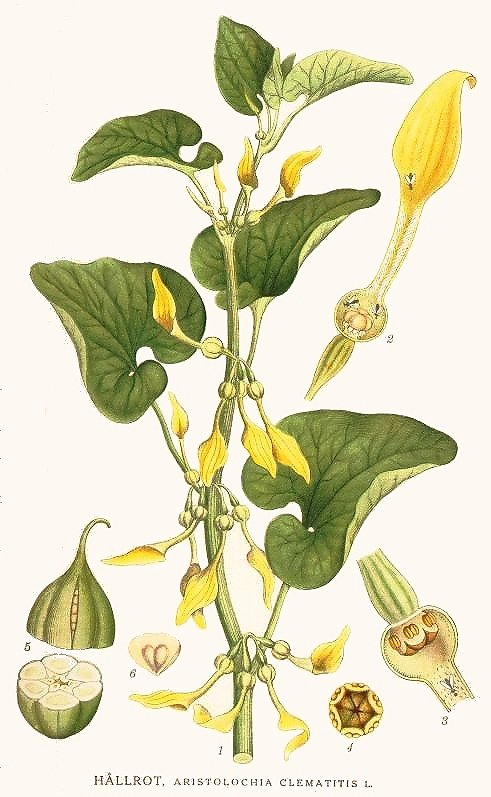 Original Description Hållrot, Aristolochia clematitis L.